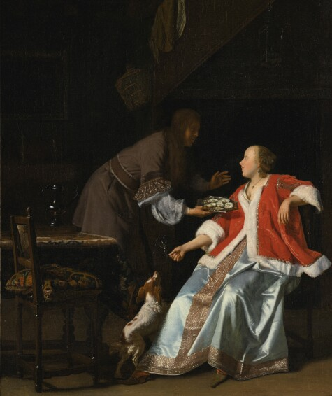 The oyster meal oil on canvas 54 x 44,5 cm 1664 - 1665